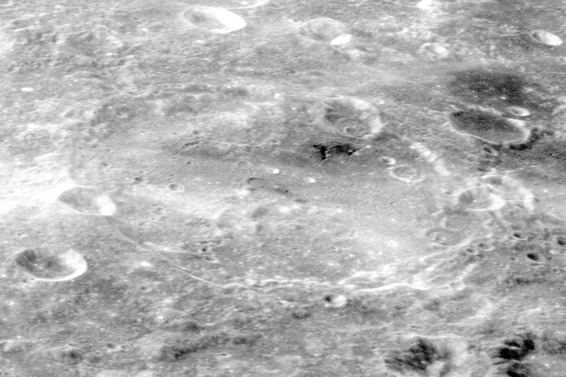 Oblique view of Messala crater, on the moon. Taken by Apollo 16 panoramic camera during Trans-Earth Injection. Brightness and contrast adjusted in GIMP.